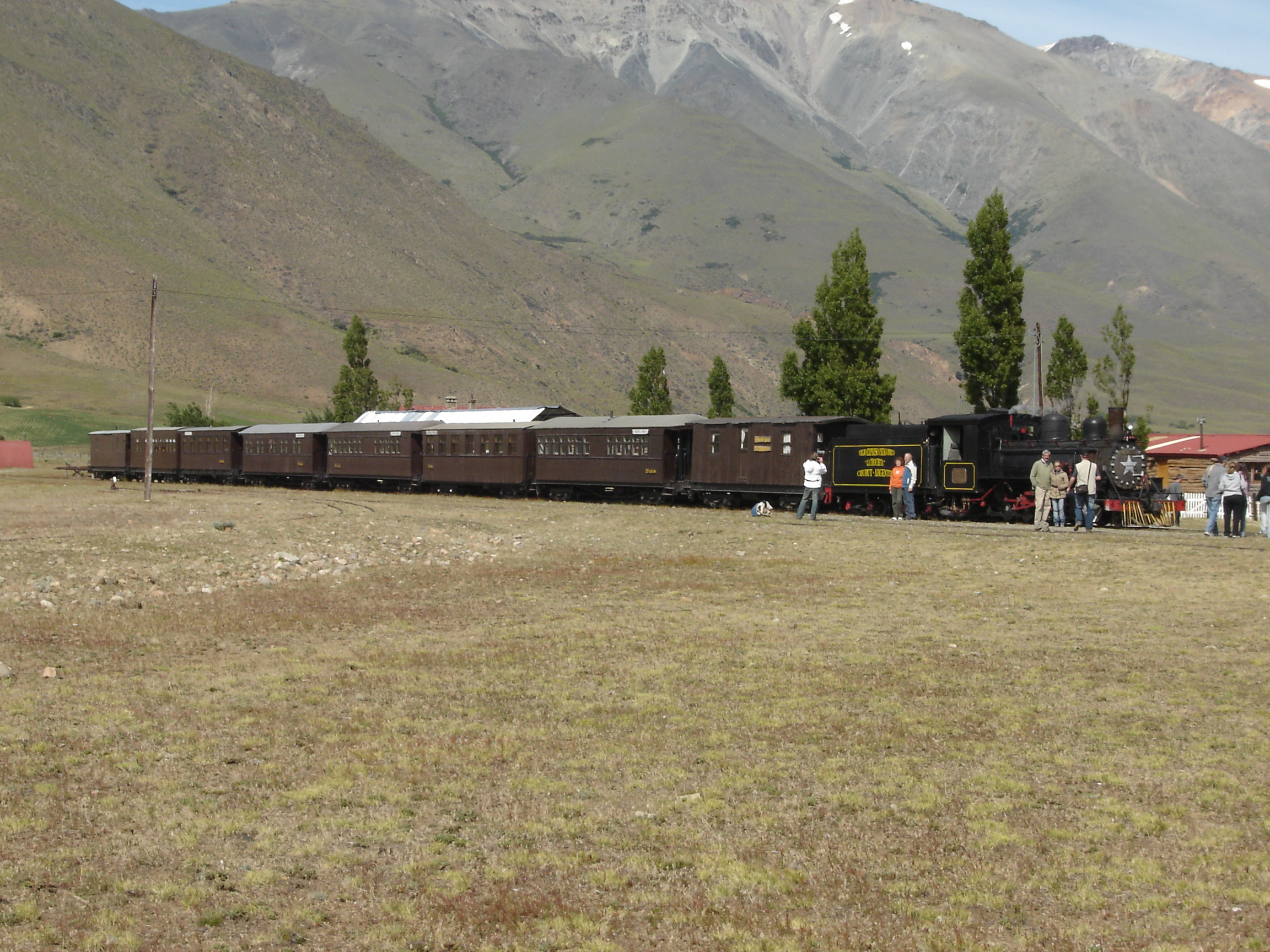 Old Patagonian Express "La Trochita", taken in NAHUEL PAN ESTACION FCGR, U9200XAH, Chubut, Argentina. Province: ISO 3166-2: AR-U. FIPS 10-4: AR04. INDEC: 26. Department: Futaleufú Department. DD: 42°57′00″S 71°11′00″W / 42.95°S 71.1833333°W DMS: 42°57′00″S 71°11′00″W / 42.95°S 71.1833333°W